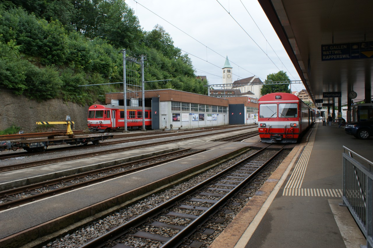 The depot and workshops with ABt 141 driving trailer at Herisau railway station of the Appenzell Railways as seen from the station platform, where ABt 142 is on the rear of the train to Appnzell.